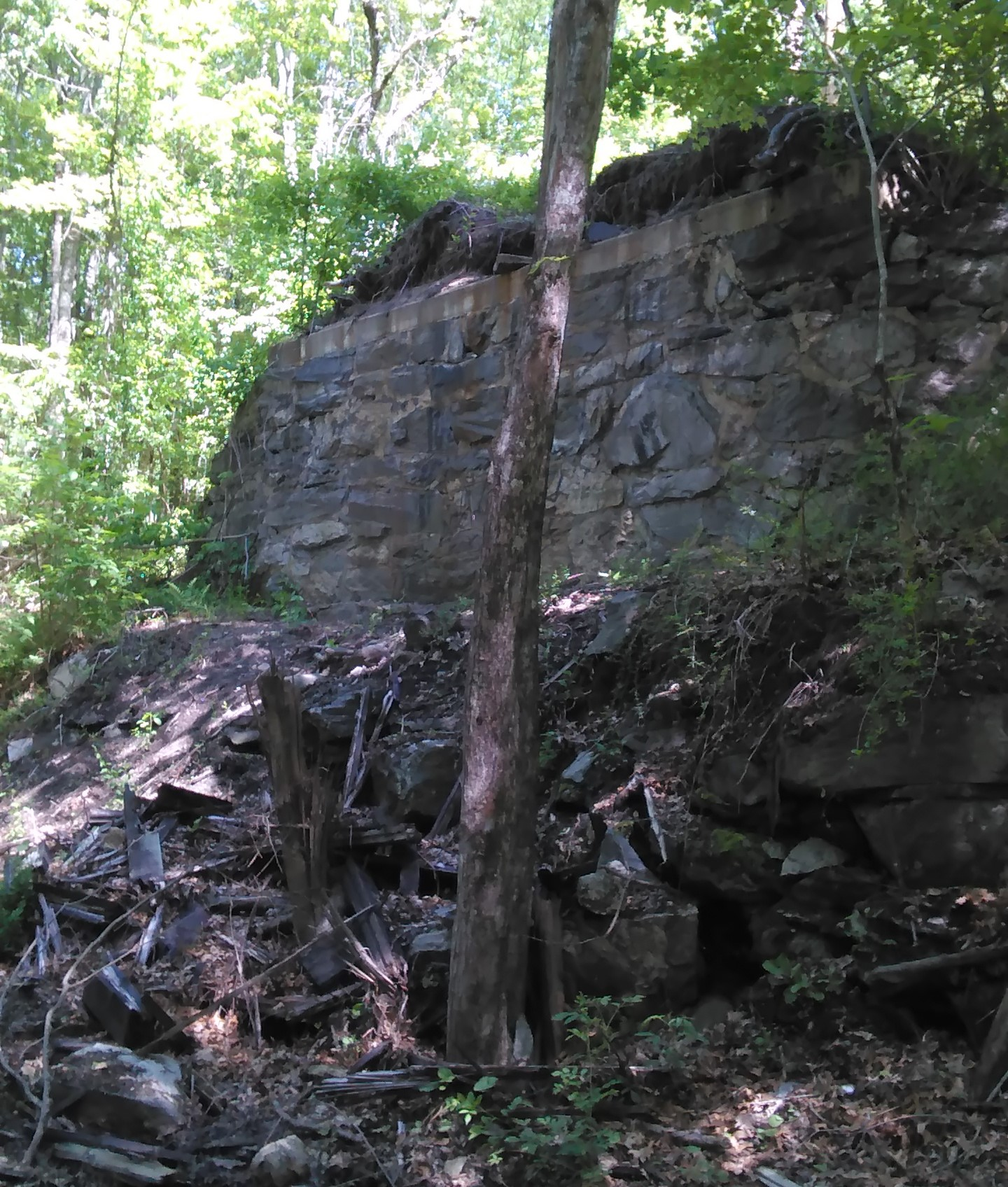 Abutment of the former Parker Road bridge, which collapsed onto the Air Line Trail in May 2016. Some rubble was remaining in this photo and cleared later.